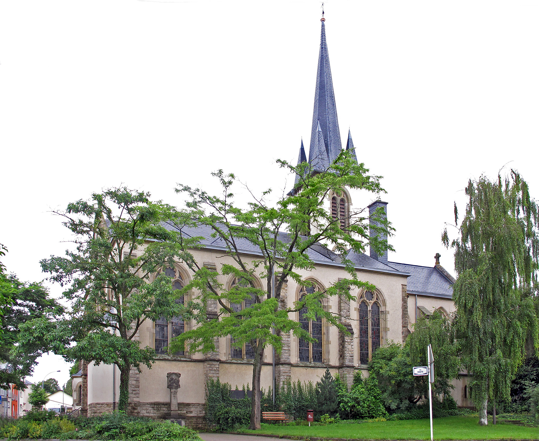 Church of Luxembourg-Hamm